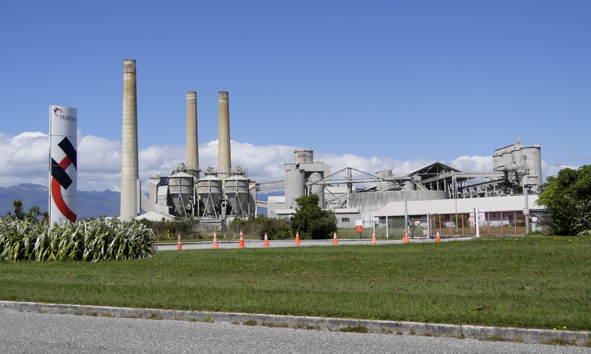 Holcim, Cement factory, Westport, Buller District, West Coast Region, South Island, New Zealand